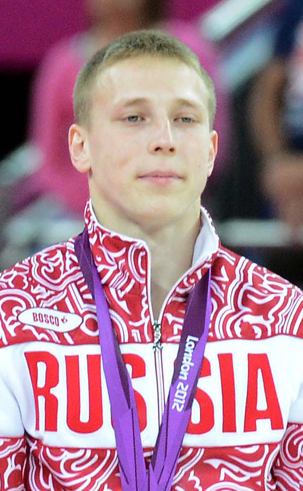 Silver medalists in men's vault at the London Olympics, Denis Ablyazin